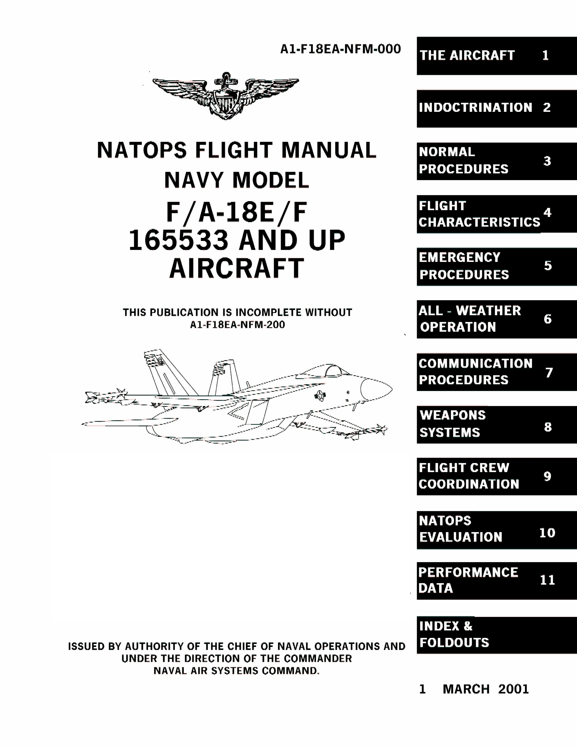 FA-18E/F NATOP Manual cover, showing distribution notice.